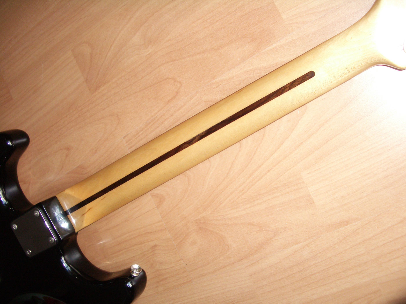 Back of an electric guitar neck. The dark wooden inlay in the center of the neck covers the truss rod ("skunk stripe"). (Guitar: Squier Stratocaster, made in Korea)